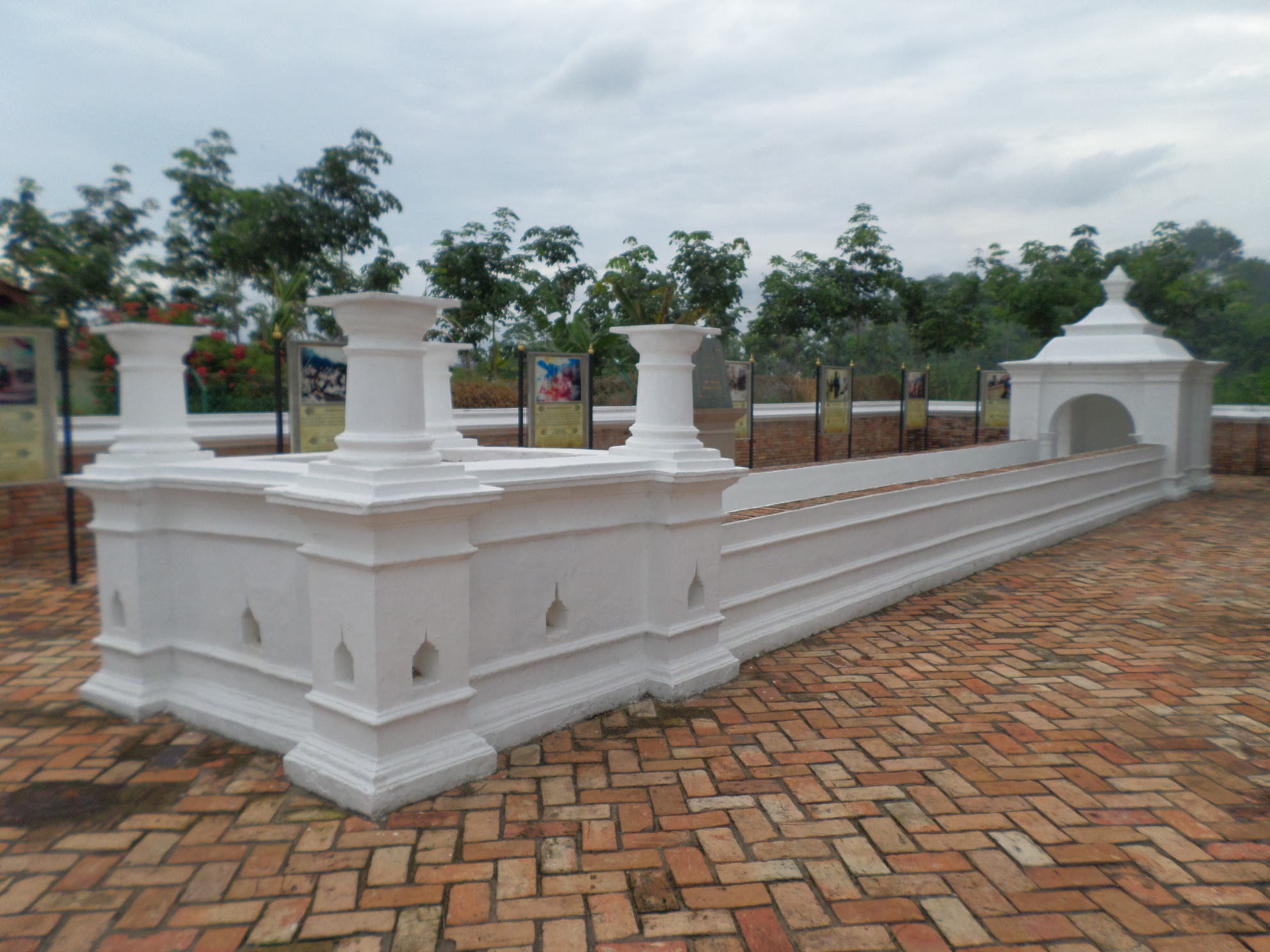 Hang Tuah Mausoleum, Tanjung Kling, Malacca, MalaysiaBahasa Melayu: Makam Hang Tuah, Tanjung Kling, Melaka, Malaysia